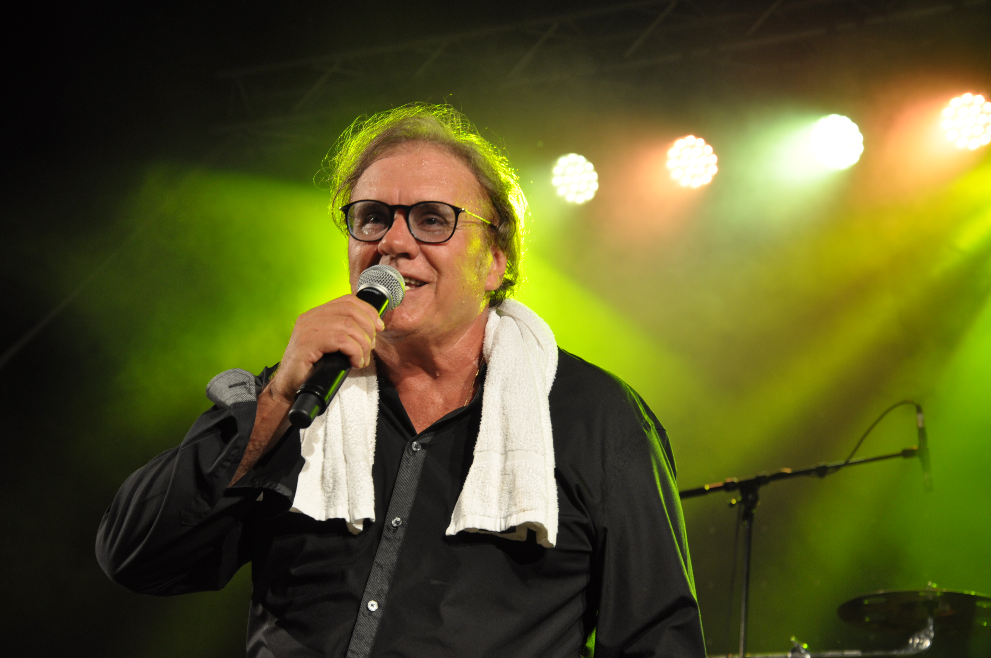 François Valéry performing in Cannes in 2019.